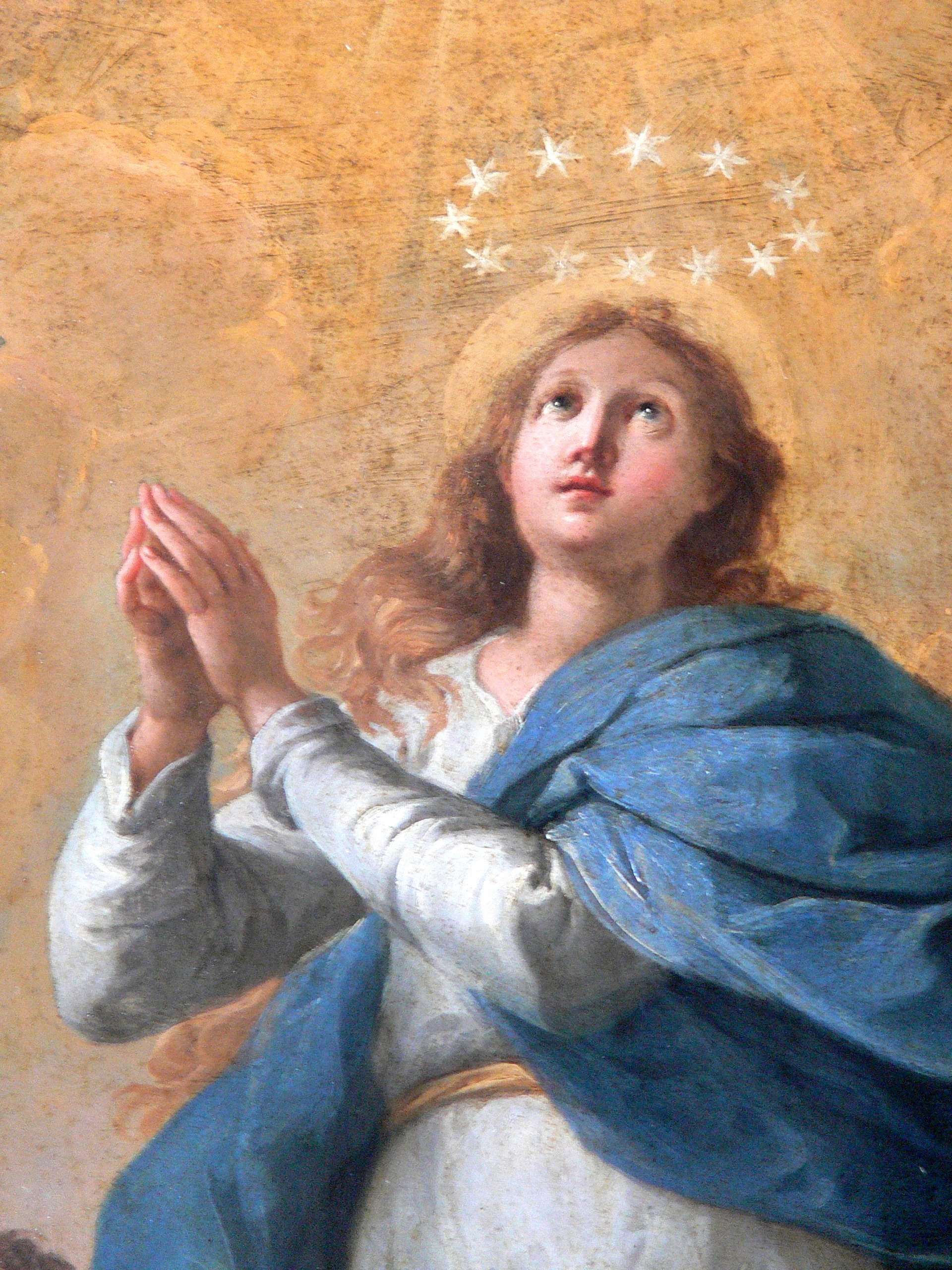 Sarleinsbach ( Upper Austria ). Saint Peter parish church: Former altar painting ( 1728 ) of Maria Immaculata by Martino Altomonte - detail.